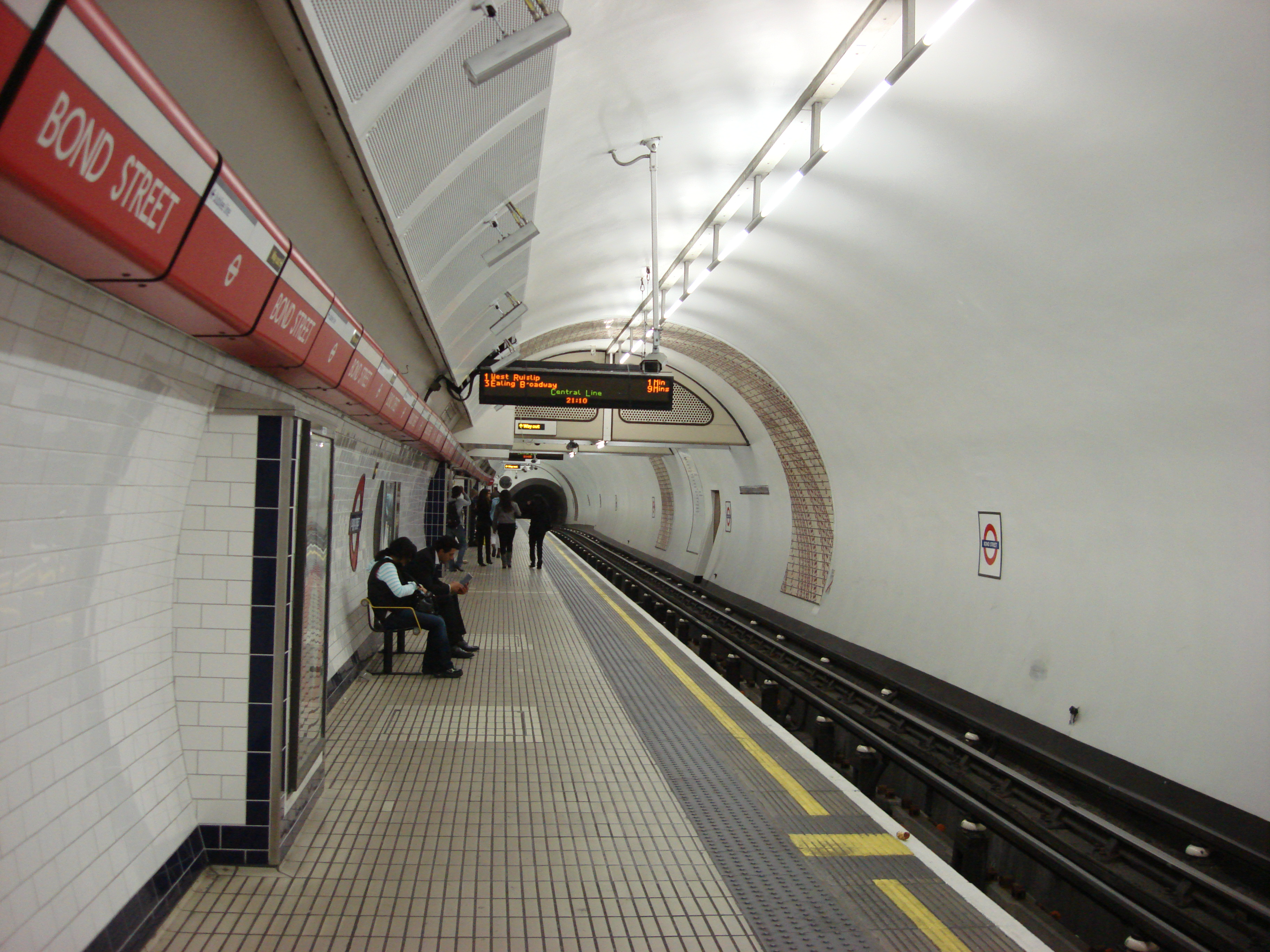 Central line Westbound platform at Bond street